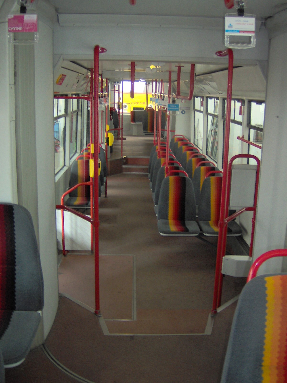 Interior of Škoda 03T (Astra) tram in tram depot, Olomouc, Czech Republic